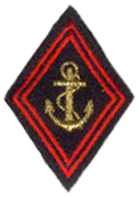 Shoulder patch of Marine Troops(France).